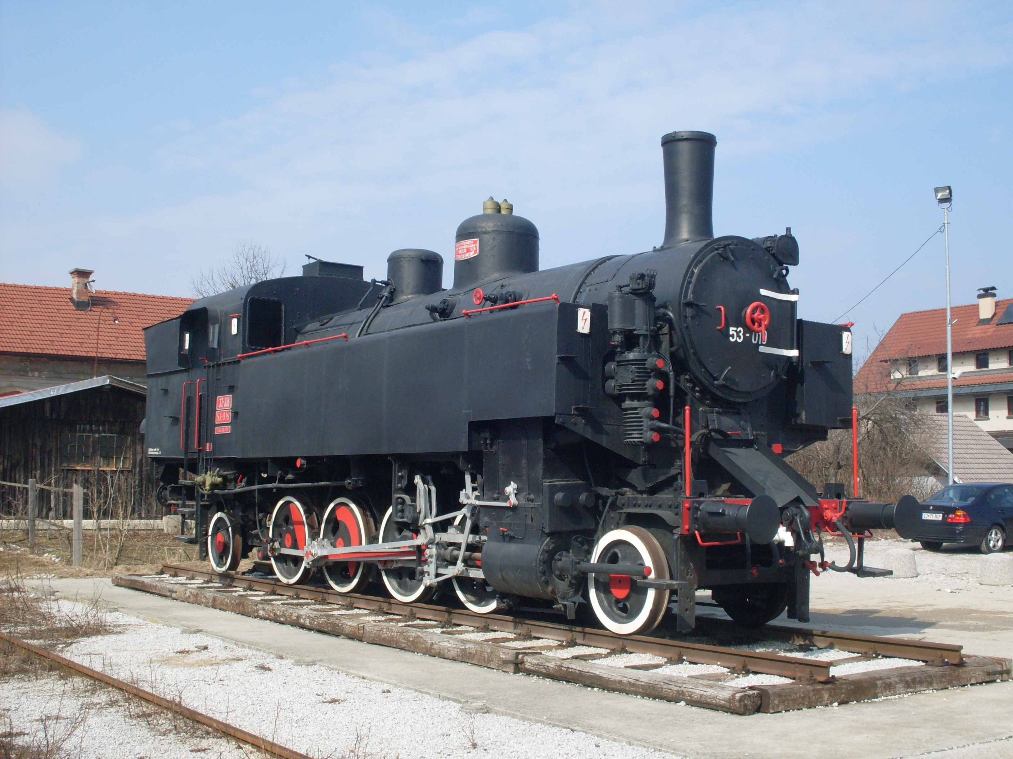 Normal gauge steam locomotive JŽ 53-019 at the train station in Naklo, Slovenia. Previous marks: BBÖ 378.116, DRB 93.1416. Weight: 66 t, axle load: 11 t, length: 12 m, diameter of driven wheels: 1140 mm, steam pressure: 14 bar, power: 600 kW (800 HP), max. speed: 60km/h, capacity of water: 6 m³, capacity of coal: 2.3 t, type of construction: 1D1t h2 Lentz The locomotive was produced in 1928 by Wiener Lokomotiv Fabrk (WLN) Floridsdorf, serial nr. 2976. The series JŽ 53 (BBÖ 378) was designed by Alexander Lehner for passenger trains on local lines. Relatively small driven wheels enabled good accelerations at numerous stations while the low speed was satisfactory for local lines. Due to four driven wheel pairs it could develop the large pulling force: it could pull upto 440 t trains at its max. speed. Modern steam engine (constructed by Lentz), where steam flow was regulated by valves, similar to those in cars, turned out to be very economical. After the WW2, 29 locomotives of this series arrived to Slovenia. They pulled passenger trains on local lines in Štajerska (eastern Slovenia), from Ljubljana to Kamnik, to Kranj and to Vrhnika and also between Kranj and Tržič. In January 1966 this locomotive pulled the last train to Tržič before it was disused (the section between Naklo and Tržič). In 2008, on the 100th anniversary of this line, the locomotive was exhibited in Naklo. Detailed description in English (copy) and Slovenian (copy). Pospichal Lokstatistik. About the class 53. More photos.